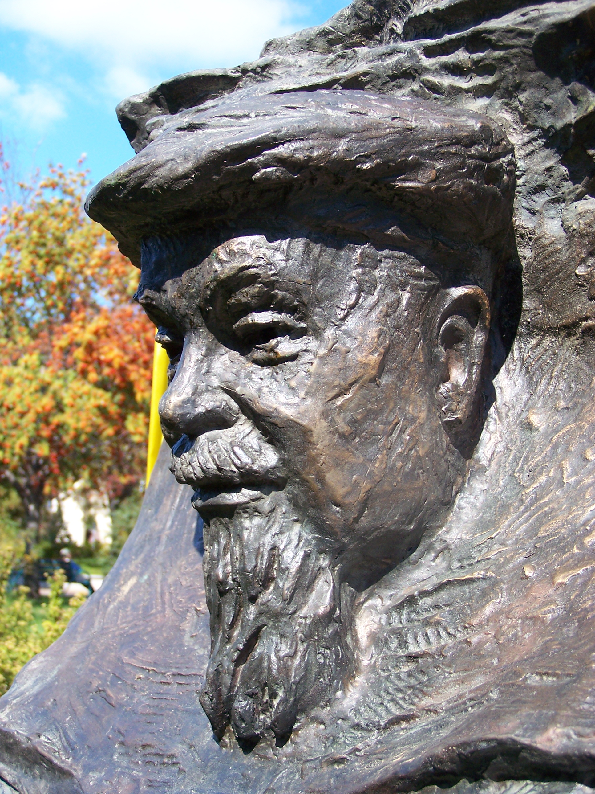 Stanisław Ligoń.